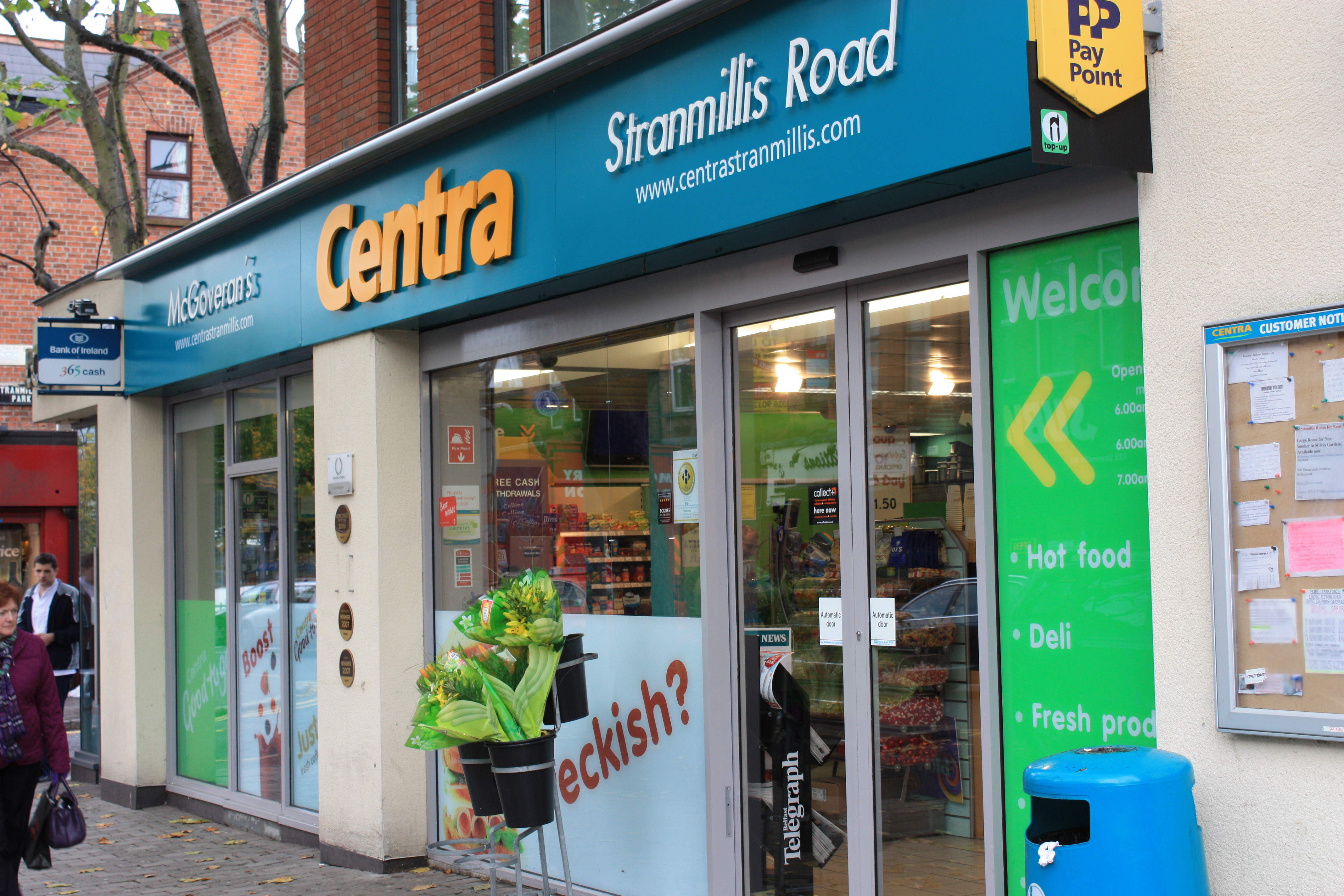 Centra, Stranmillis Road, Belfast, Northern Ireland, October 2009